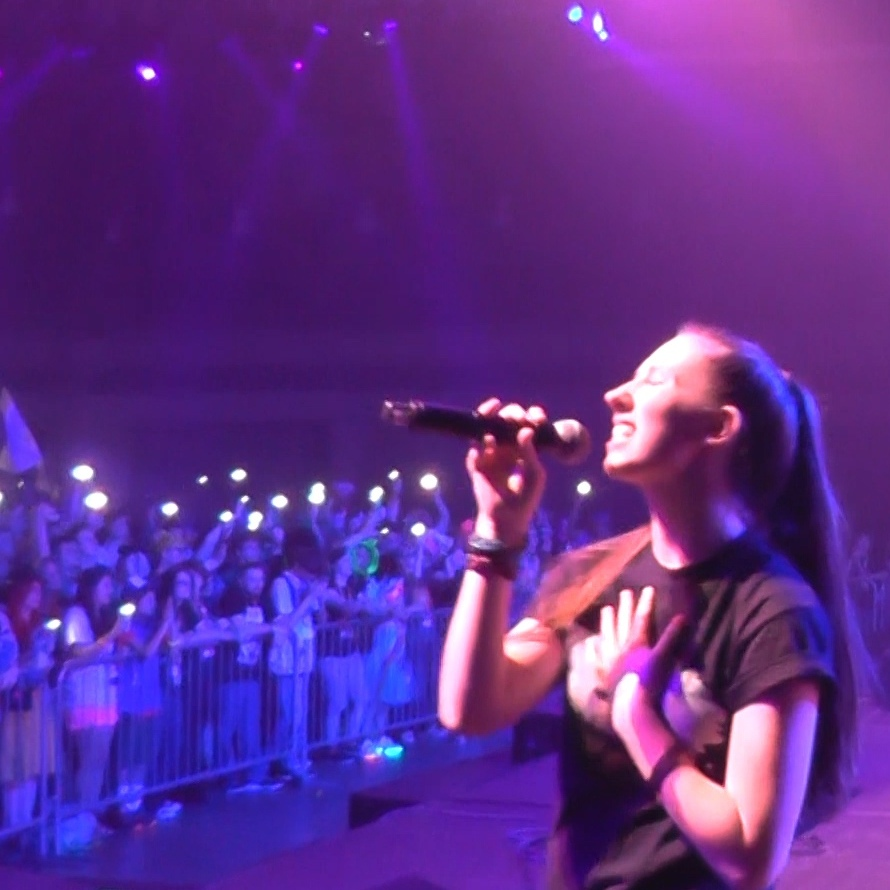 Michelle Creber performing at Bronycon 2016 in Baltimore with crowd lights